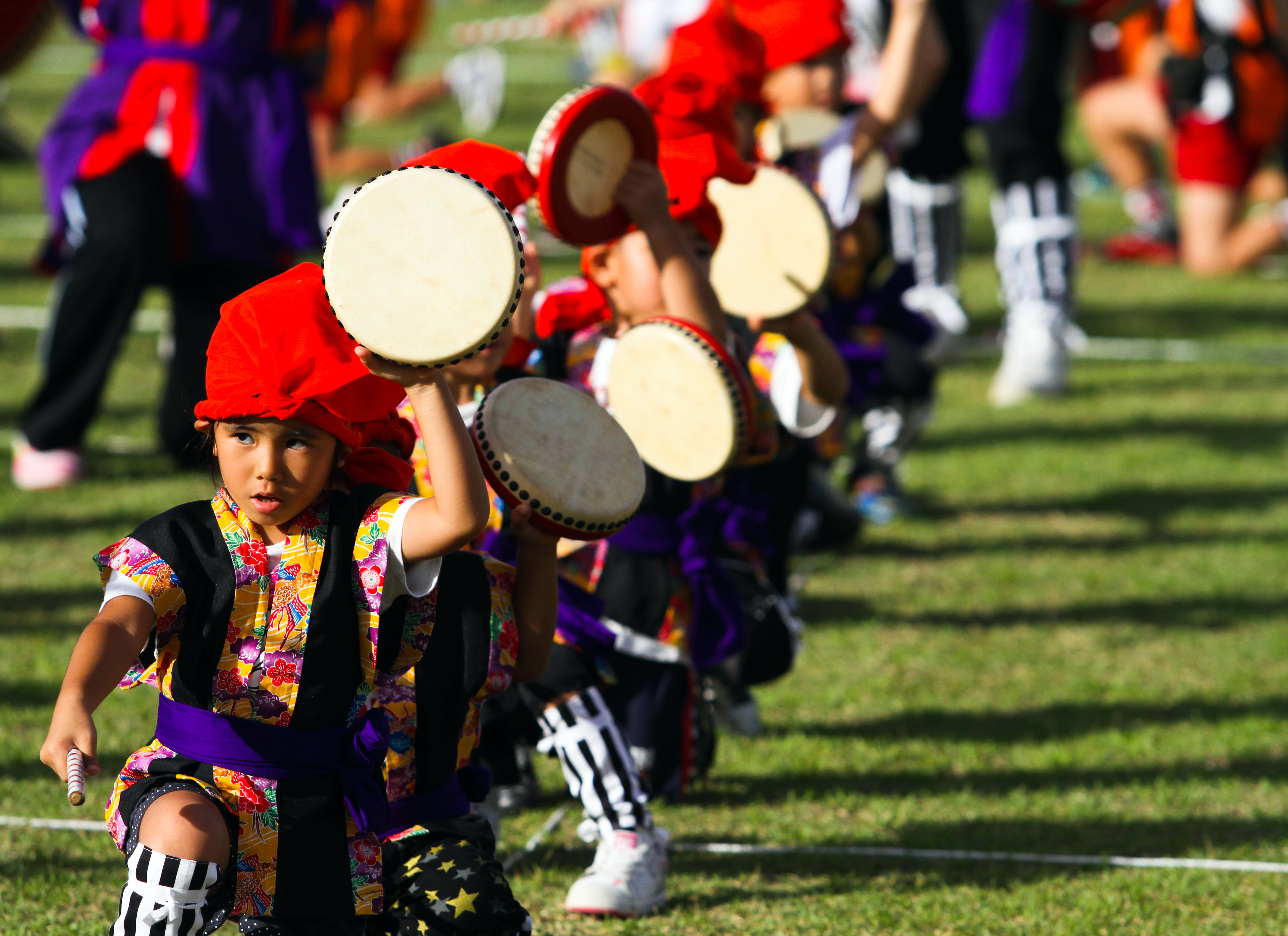 A young eisa dancer pauses during a performance at the 35th Annual Tedako Festival at Urasoe International Park July 21. Eisa dancing is derived from a Buddhist prayer dance to send ancestors off to the afterlife and is commonly performed at Okinawa festivals. The Tedako Festival consisted of many different events including: live music, youth sporting activities, the Ms. Tedako crowning ceremony, and a wide variety of food, games and fireworks.